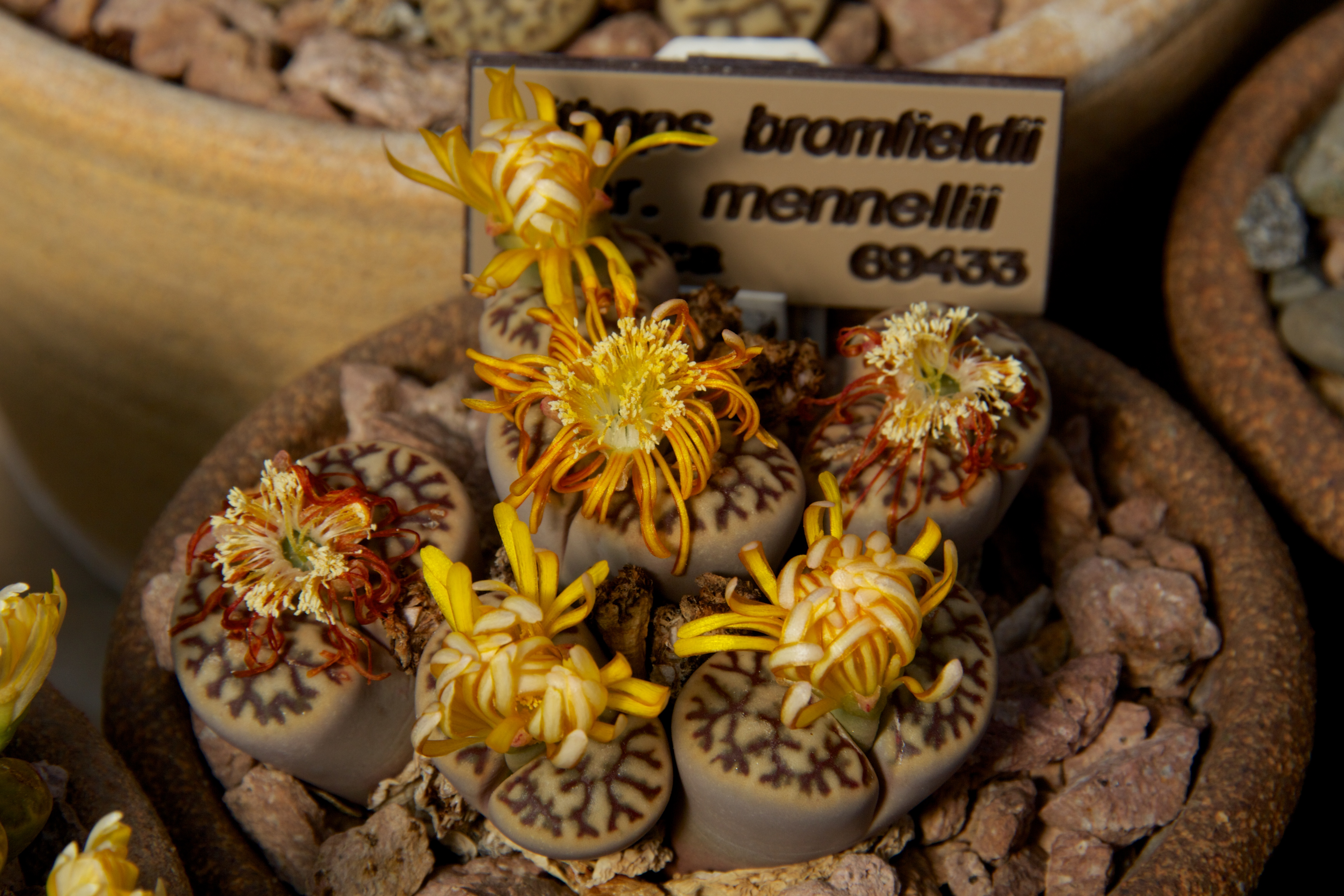 Lithops bromfieldii. At Huntington Library, Art Collections and Botanical Gardens.